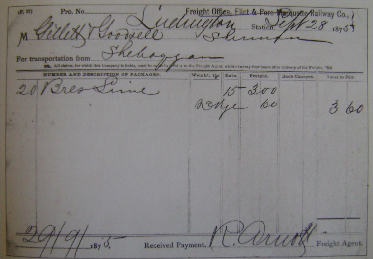 Bill lists consignment of lime shipped from Sheboygan, Wisconsin, to Ludington, Michigan